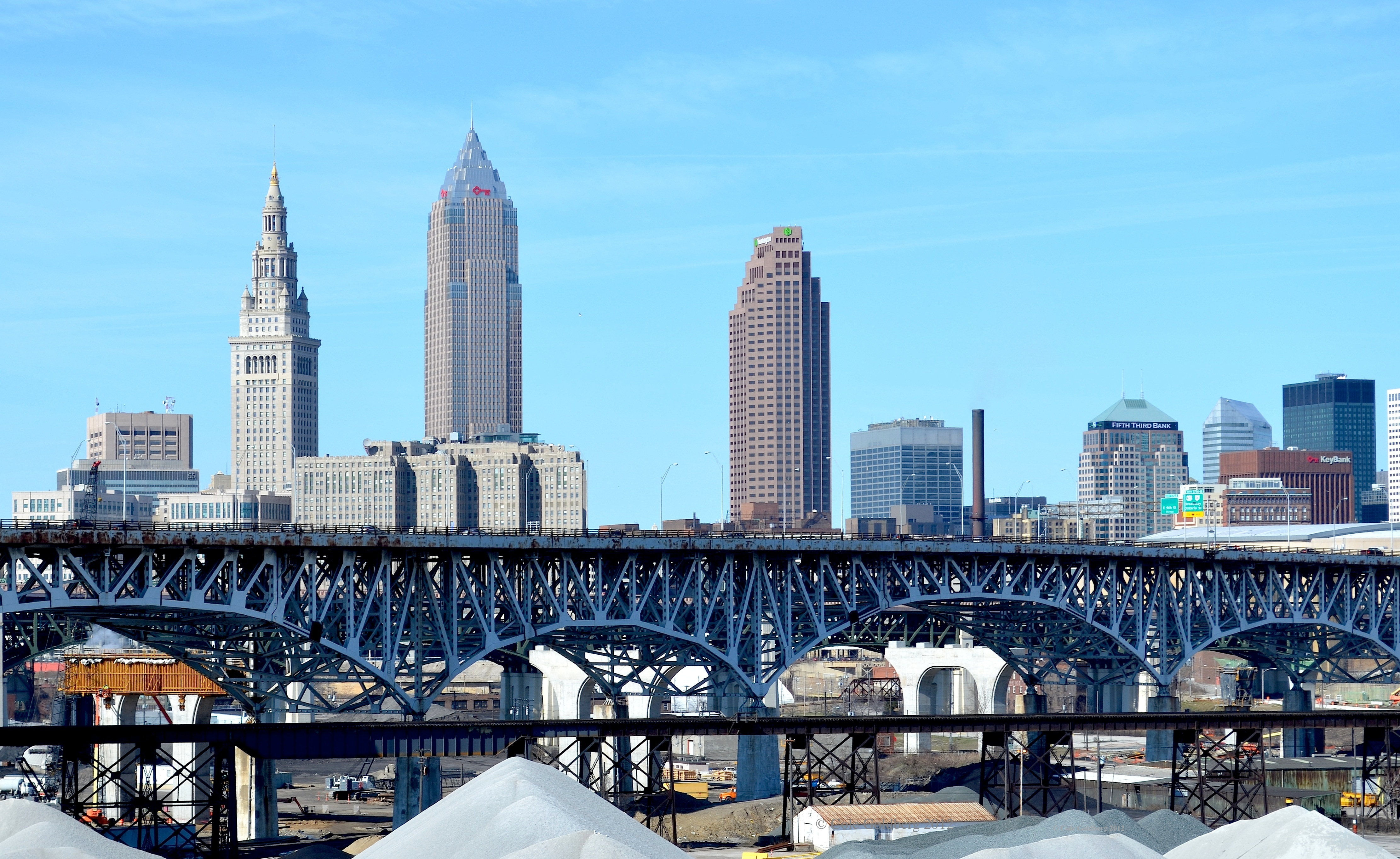 Downtown Cleveland as viewed from The Tremont neighborhood